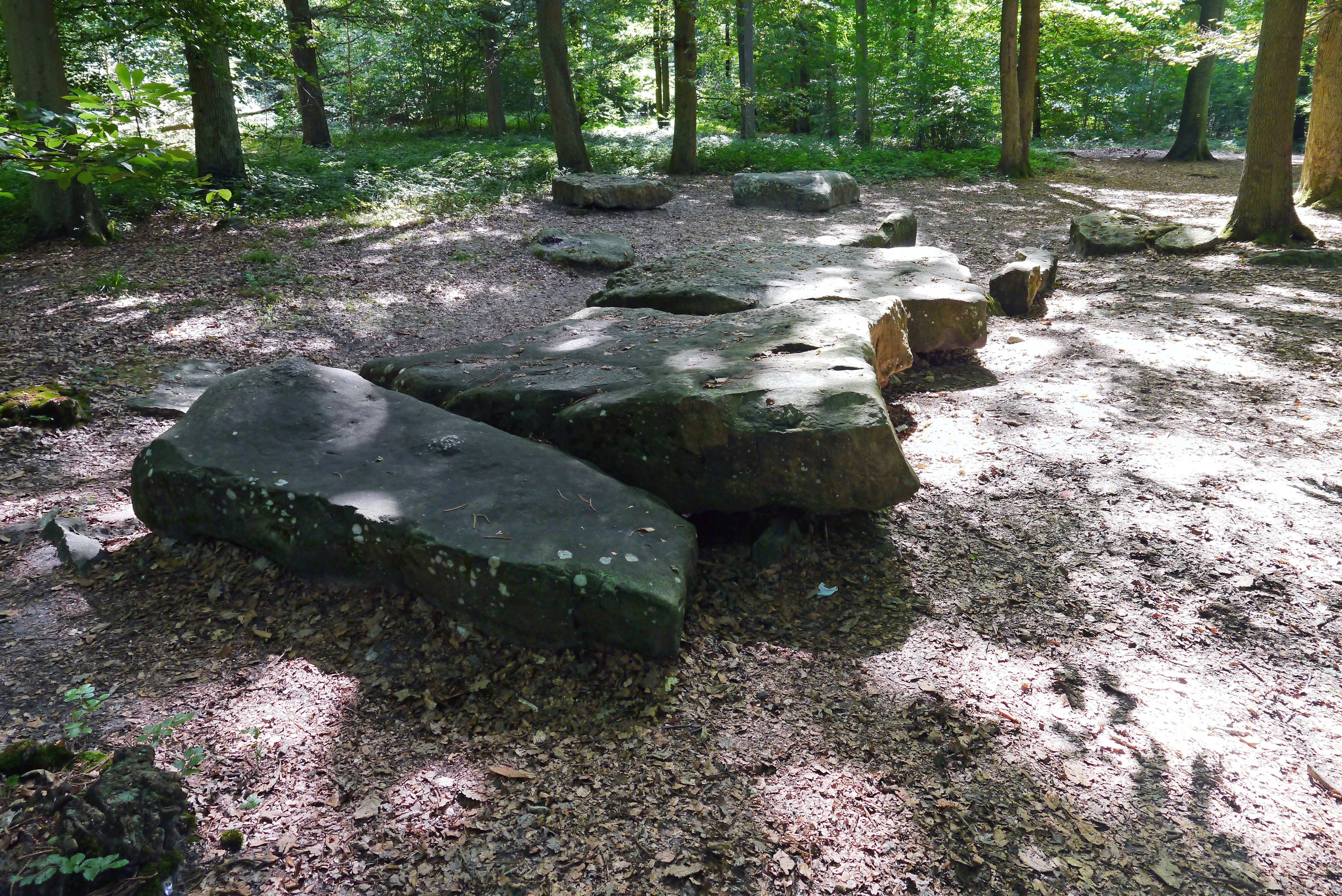 Dolmen of Pierre Turquaise, forêt de Carnelle, Saint-Martin-du-Tertre. .